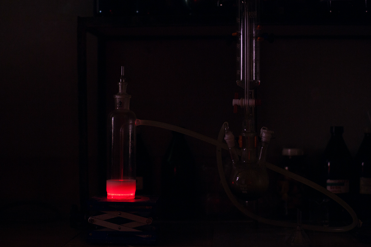 Red glow of singlet oxygen passing into triplet state